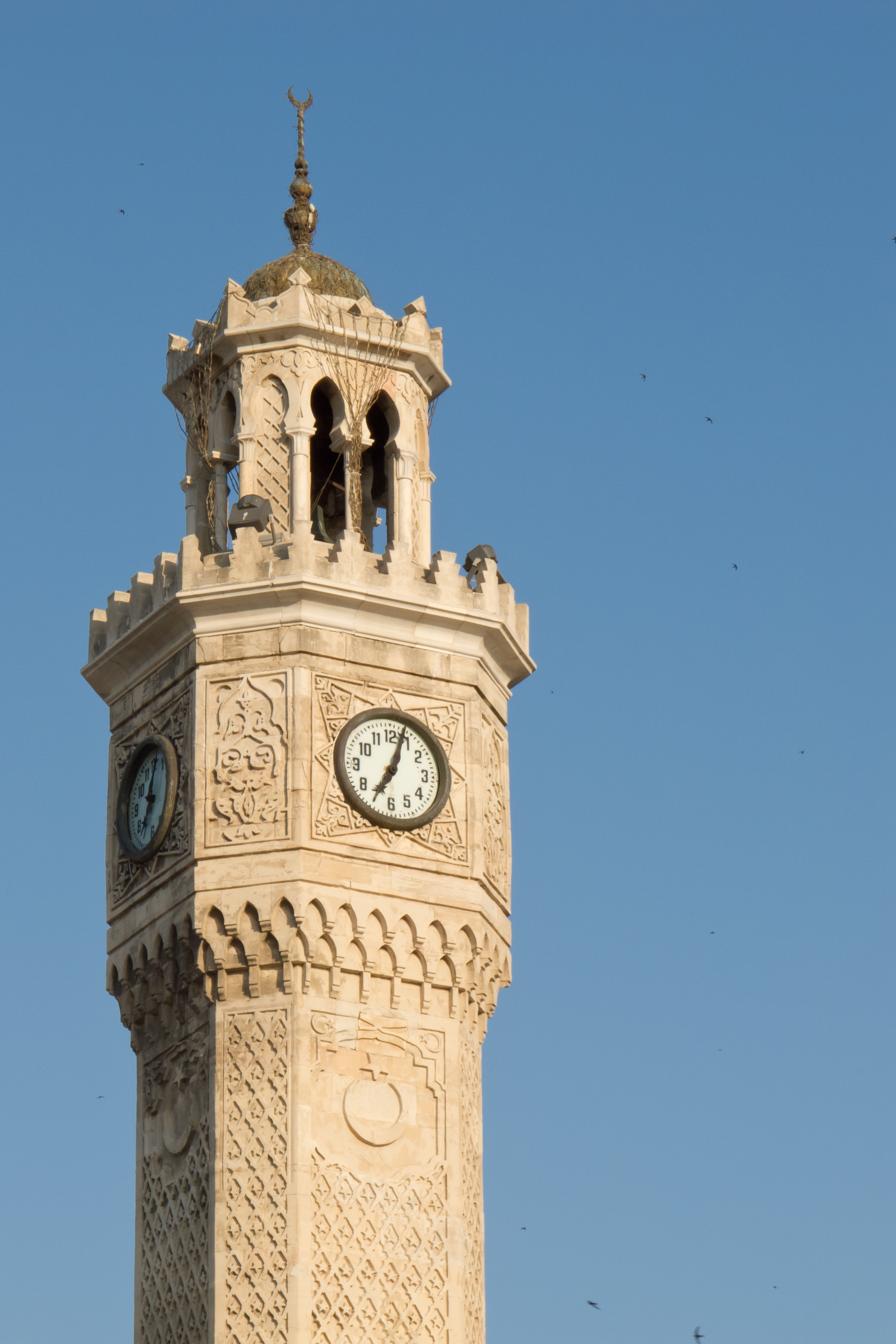 İzmir Clock Tower, Turkey.